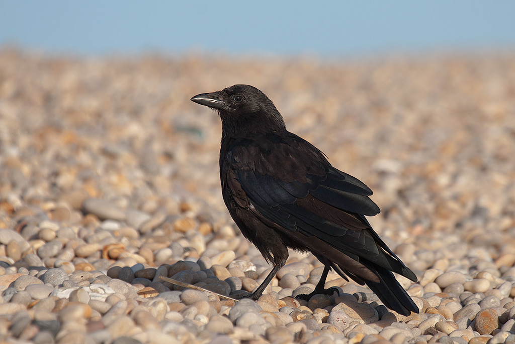 The Carrion Crow photographed in England.